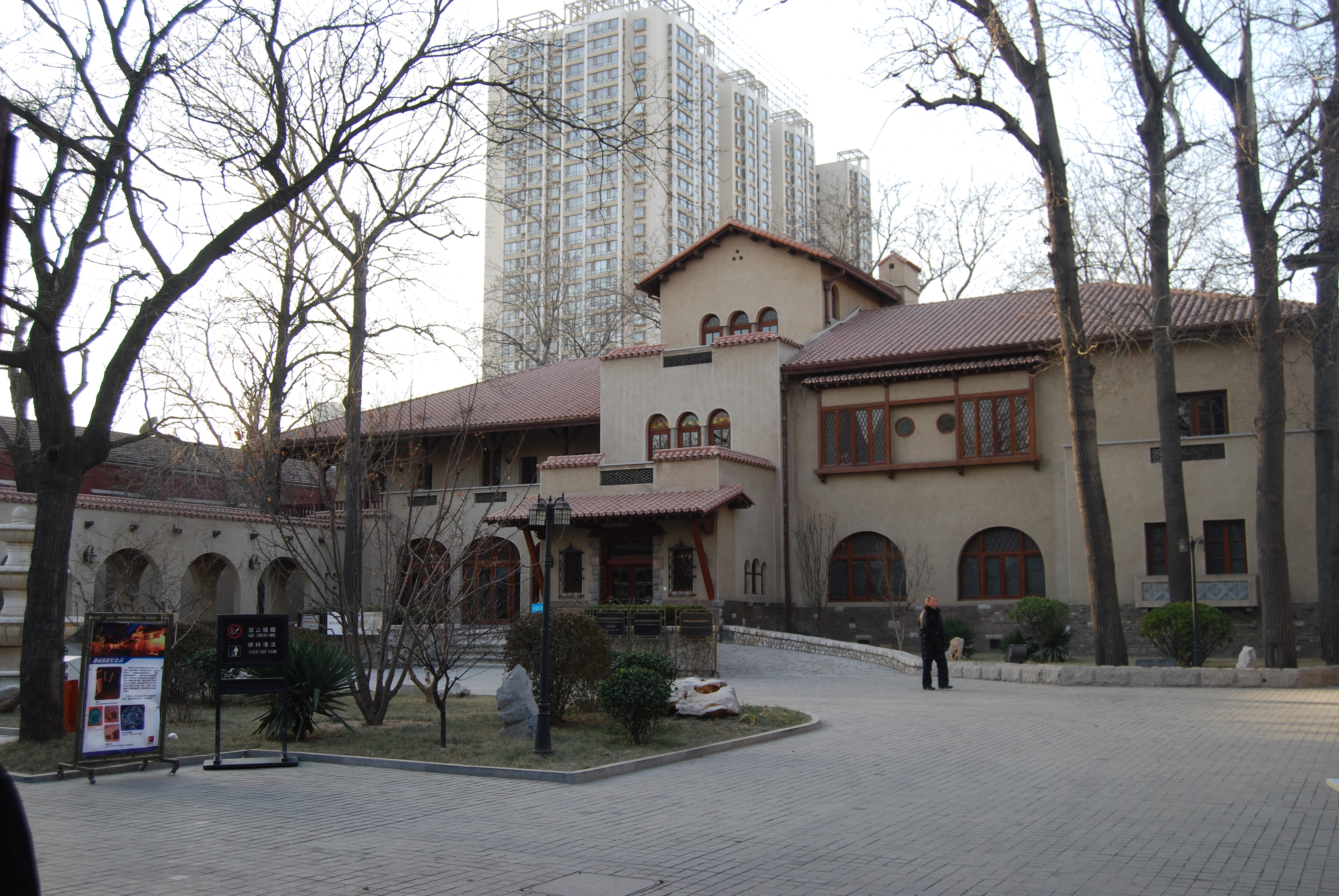 Jing Yuan Garden in Anshan Dao No. 70, Heping District, Tianjin